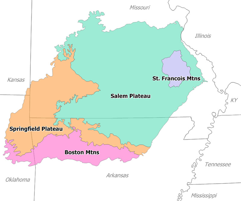 Overview of physiographic sections of the Ozarks.